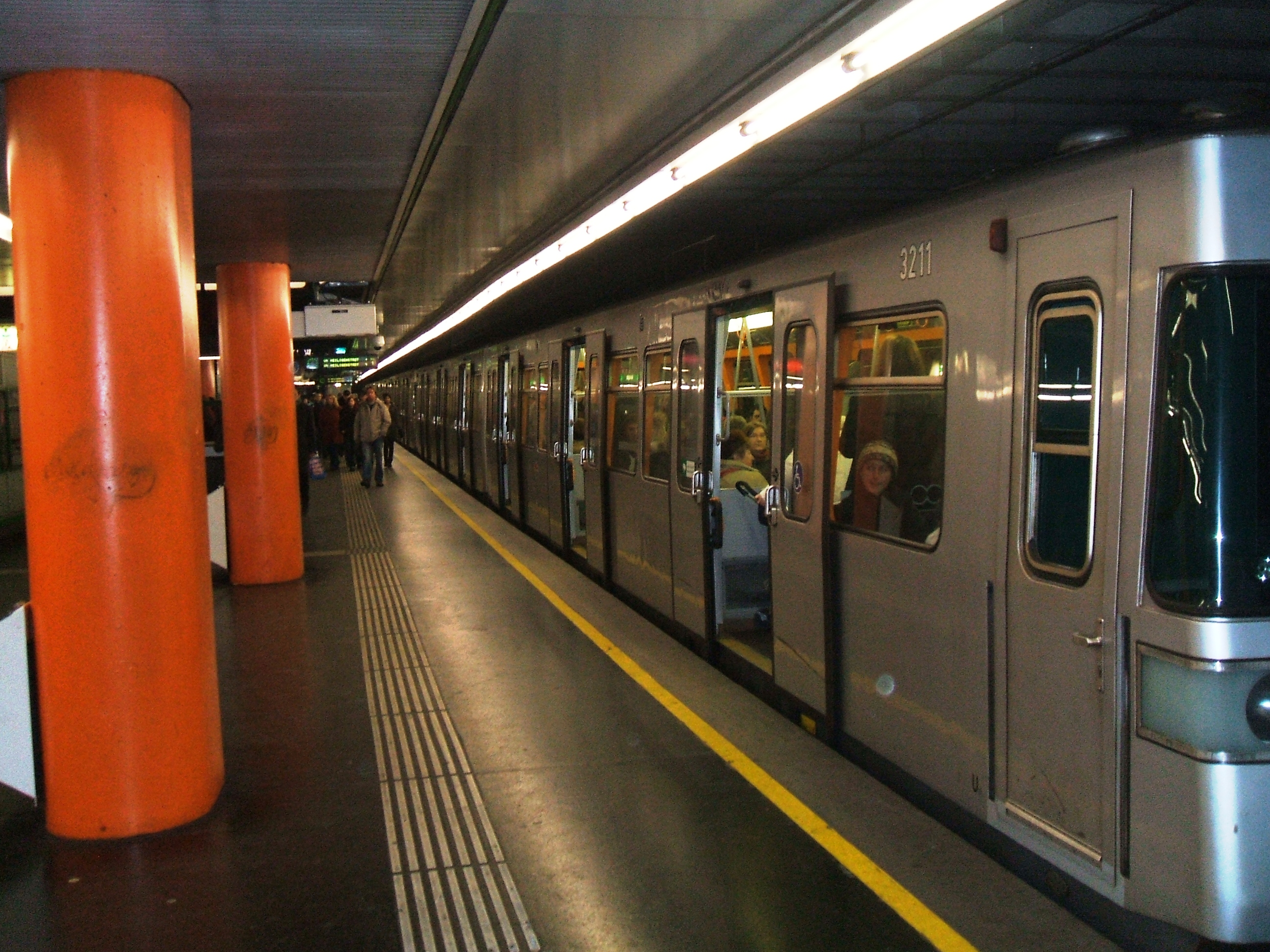 Karlsplatz station, U4, Vienna